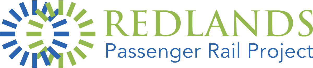 Redlands Passenger Rail Project logo